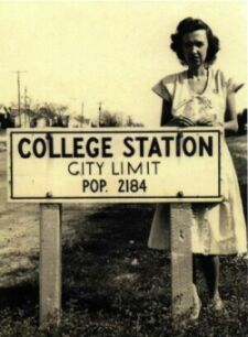 A woman standing next to one of College Station's original population signs.